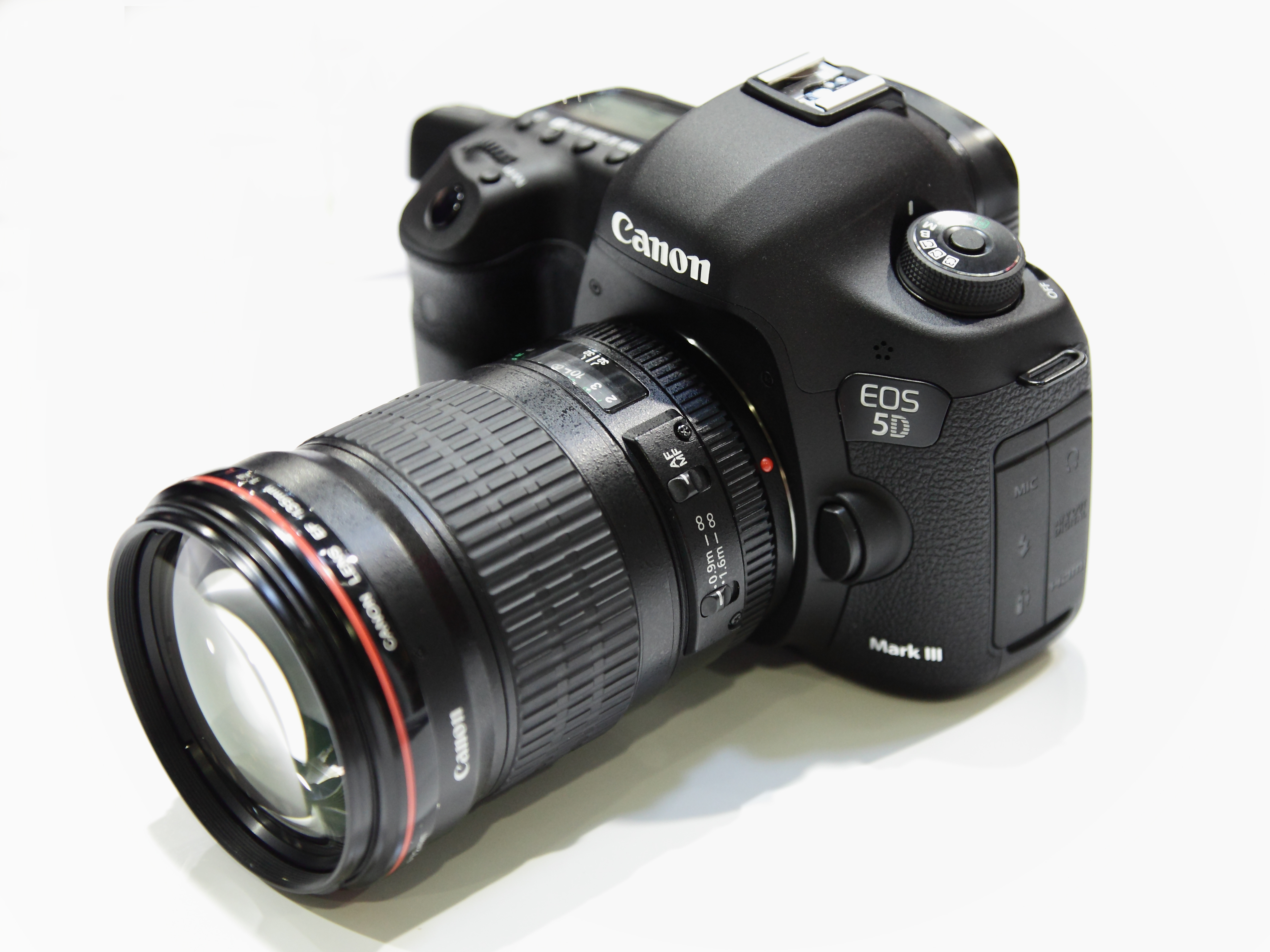 Canon EOS 5D Mark III, full-frame digital SLR camera released in 2012, with Canon EF 135 mm f/2L lens